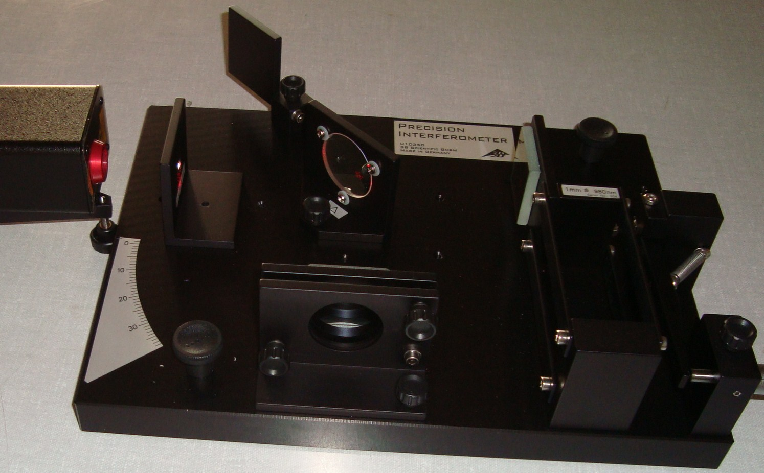 A small Michelson interferometer